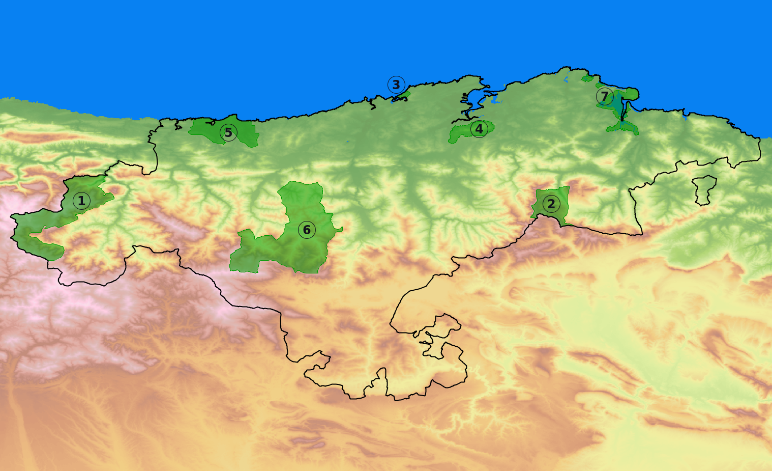 Natural and national parks of Cantabria (Spain): 1. Picos de Europa National Park 2. Collados del Asón Natural Park 3. Dunas de Liencres Natural Park 4. Macizo de Peña Cabarga Natural Park 5. Oyambre Natural Park 6. Saja-Besaya Natural Park 7. Santoña, Victoria and Joyel Marshes Natural Park